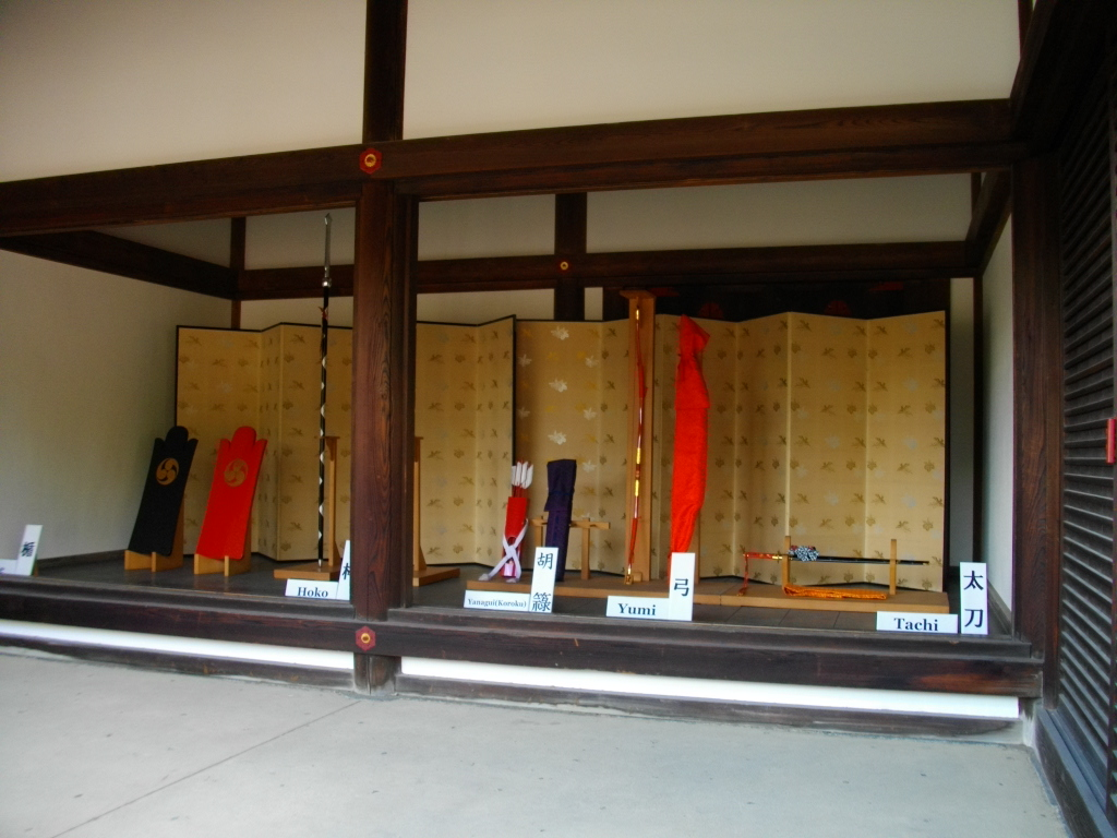 Igimono(Enthronement Ceremonial Items)